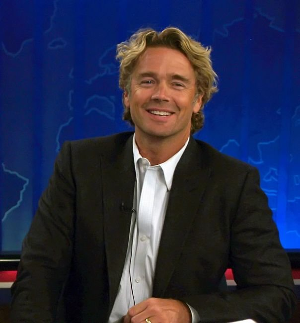 Actor John Schneider Please acknowledge "Phil Konstantin" as the creator of this photograph.